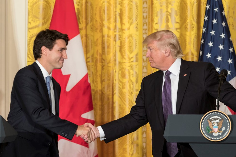 President Donald Trump (right) and Canadian Prime Minister Justin Trudeau (left) shake hands during a joint press conference, Monday, Feb. 13, 2017, in the East Room of the White House. (Official White House Photo by Shealah Craighead)